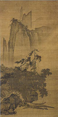 Wind and Rain, landscape painting (絹本墨画淡彩風雨山水図, kenpon bokuga tansai fuu sansui zu). Hanging scroll. Ink on silk. Located at the Seikado Bunko Art Museum, Tokyo. The scroll has been designated as National Treasure of Japan in the category paintings.